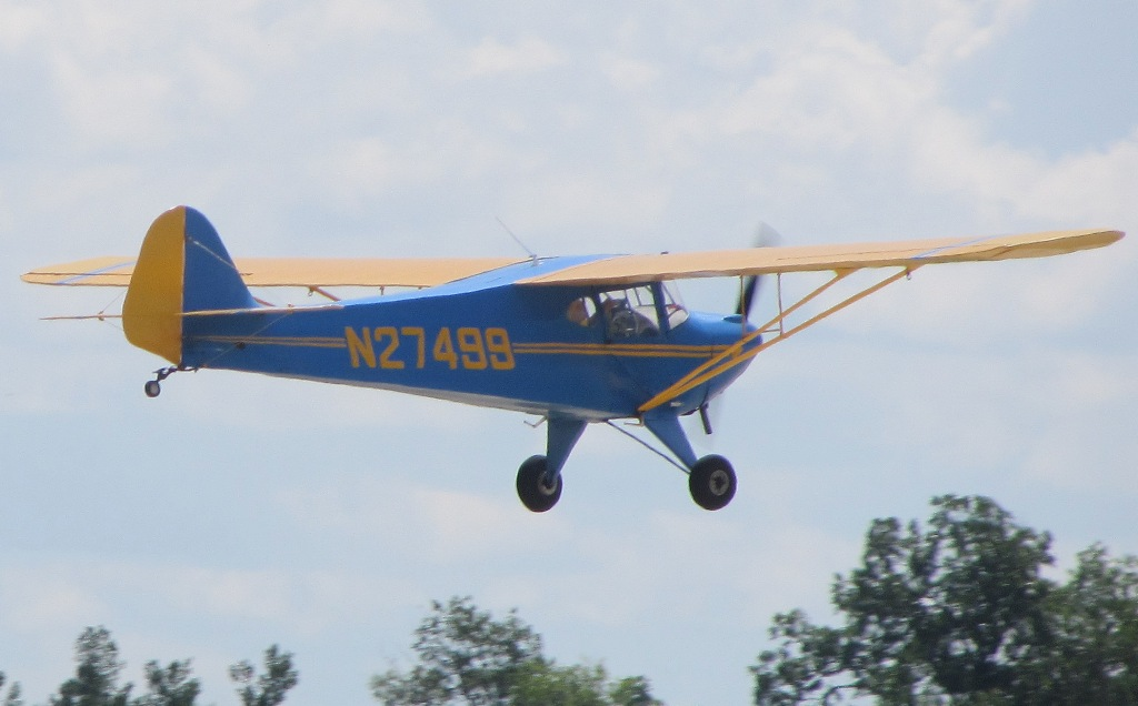 Taylorcraft BL65